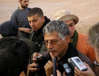 Photo of Abdelkader Taleb Omar, Prime Minister of the Sahrawi Republic.